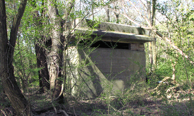 This photo, taken in 2010, looks west towards base end/spotting station B 1/4 S 1/4 which served the 6-inch guns of Fort Andrews'Battery McCook. Inside, the structure was 11 feet square, with a height of about 7 feet (from a platform floor that was elevated about three feet above ground level). The station was newly constructed in 1944, and was located about 50 ft. southeasterly of the old double base end station for mortar batteries Whitman and Cushing, which was built in 1907. These structures were located almost at the peak of the high hill about 700 ft. southwest of the fort's parade ground, at an elevation of 120-125 ft. Up through WW2, this hill, now heavily overgrown with trees and brush, was kept completely bare by periodic brush burning, giving these stations a clear view of surrounding waters.